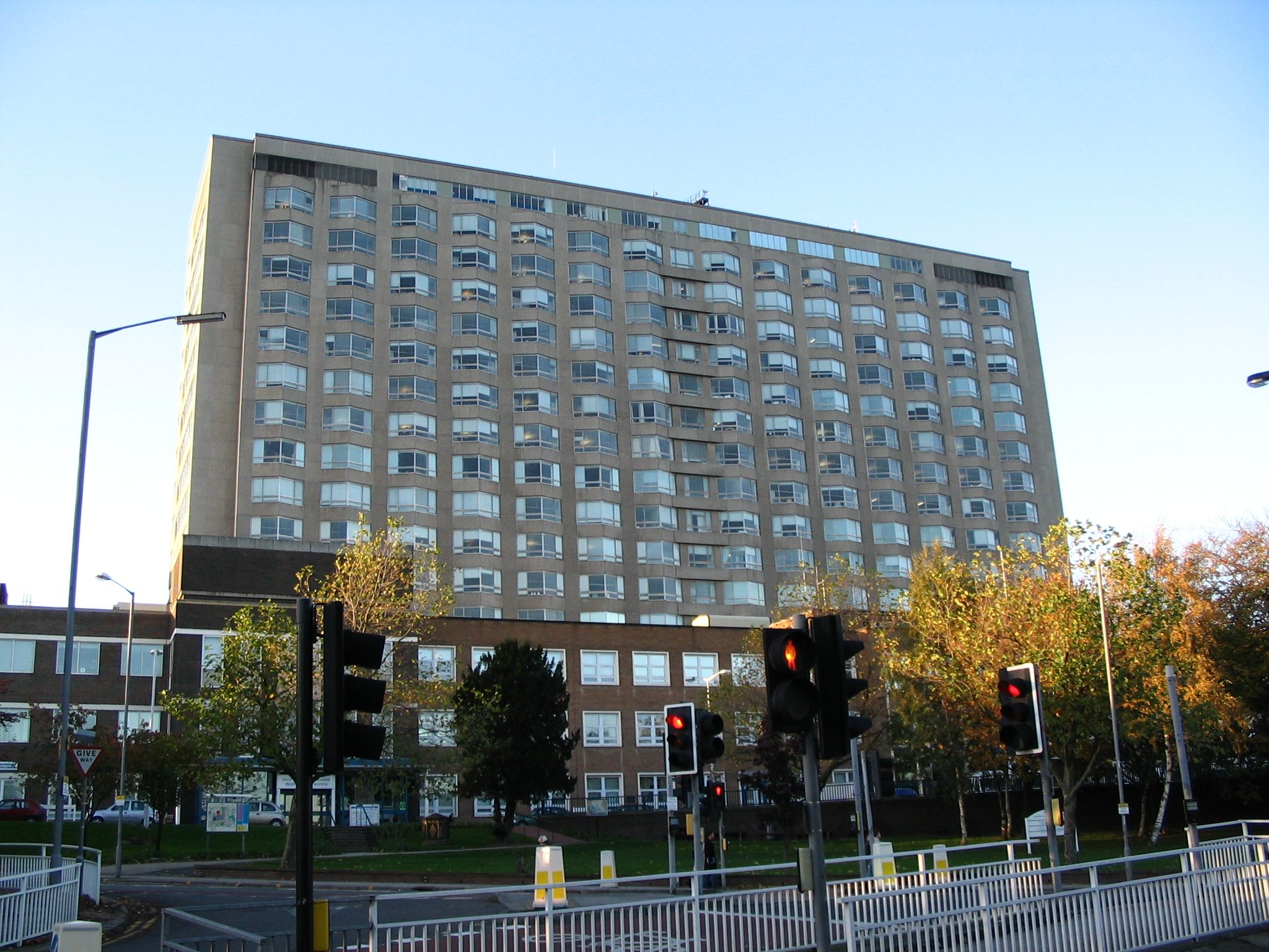 Royal Hallamshire Hospital from Glossop Road, Sheffield, UK.